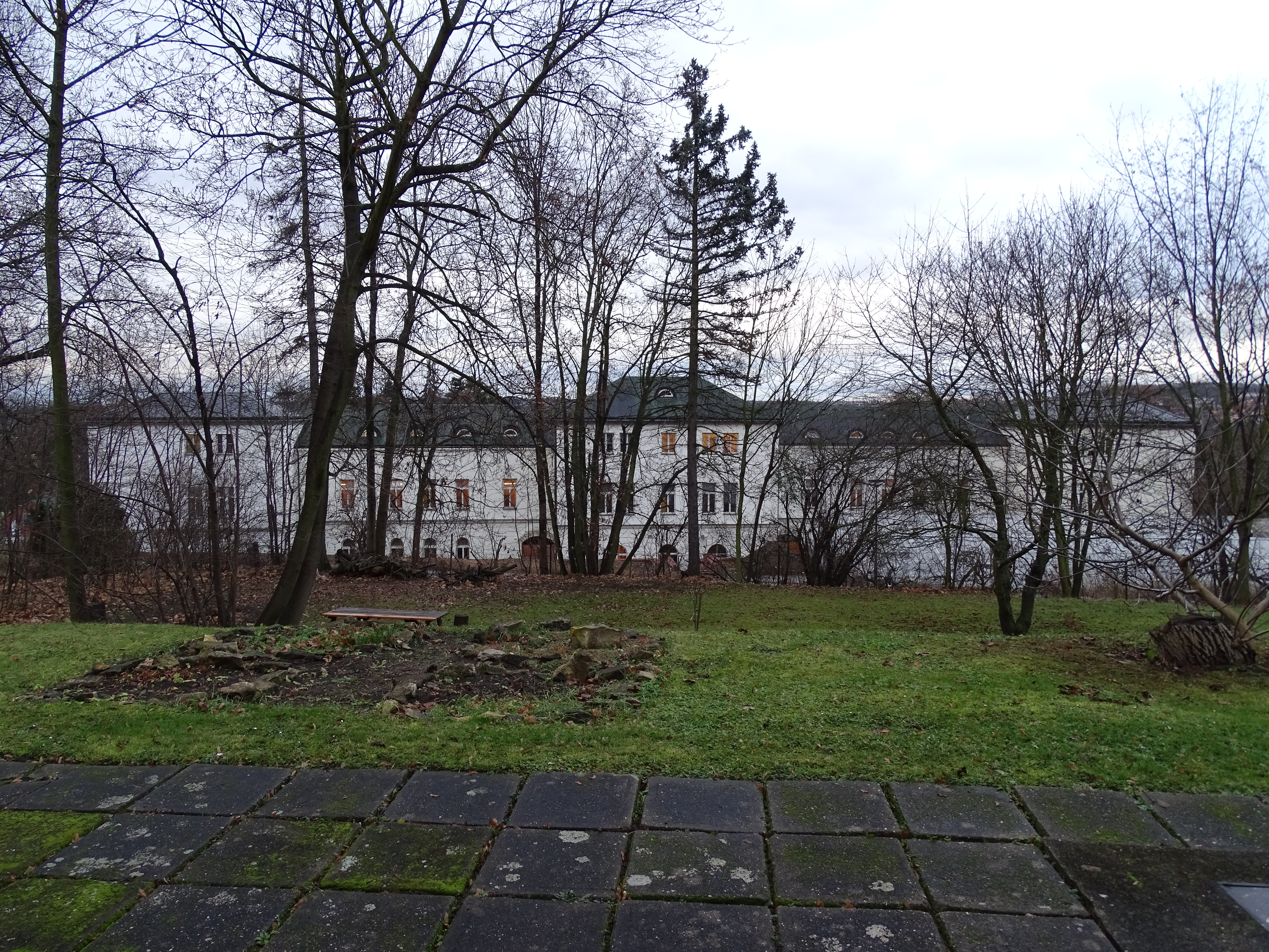 Prague-Smíchov, Czechia. Na Hřebenkách 737/5, Dolní Palata.